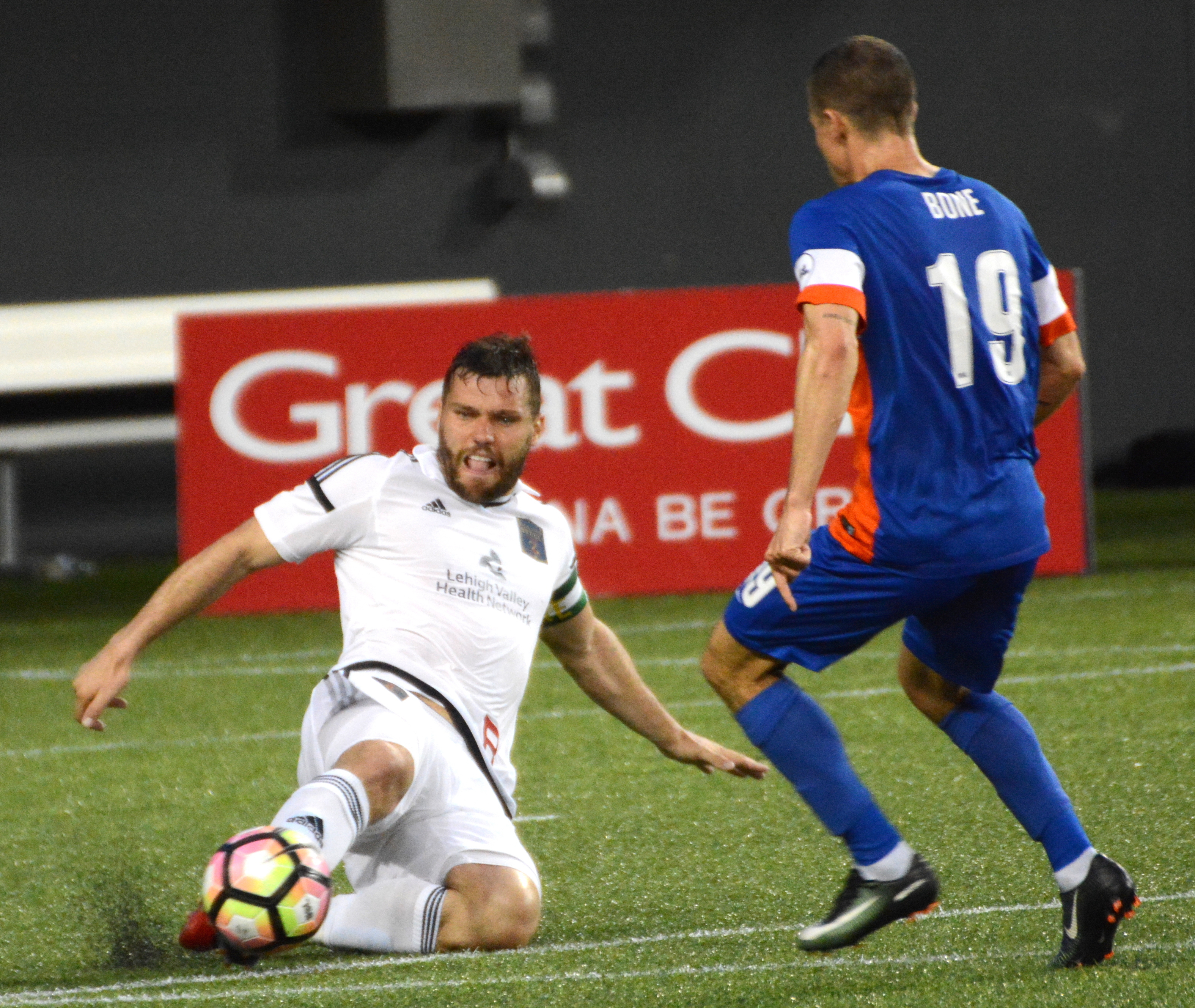 James Chambers, Corben Bone Taken during a match between FC Cincinnati and Bethlehem Steel FC at Nippert Stadium in Cincinnati, USA on May 20, 2017.